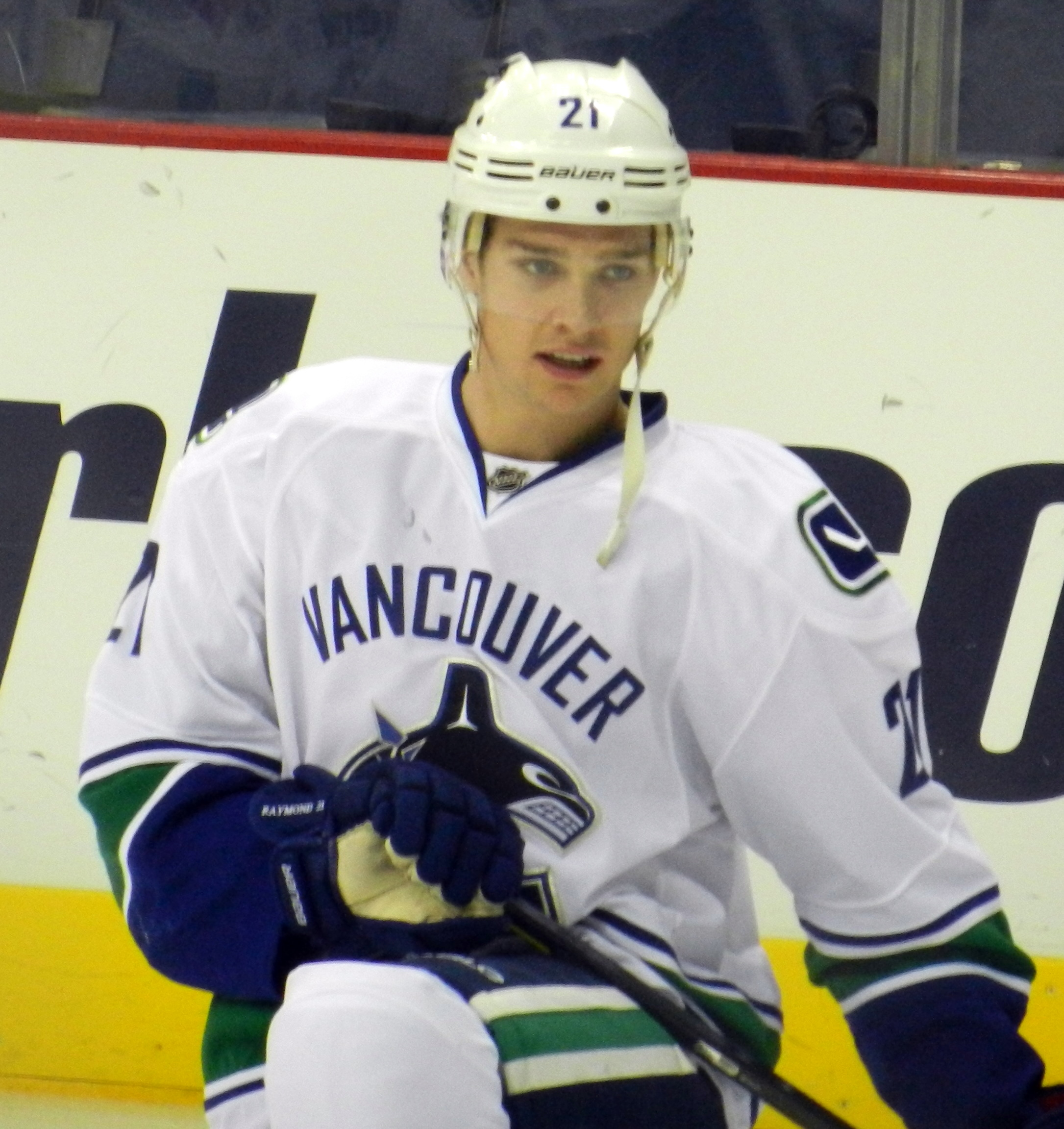 Mason Raymond playing for the Vancouver Canucks during warm-up of a game vs. the Columbus Blue Jackets in the 2011-12 season. Vancouver lost the game 2-1 in a shoot-out